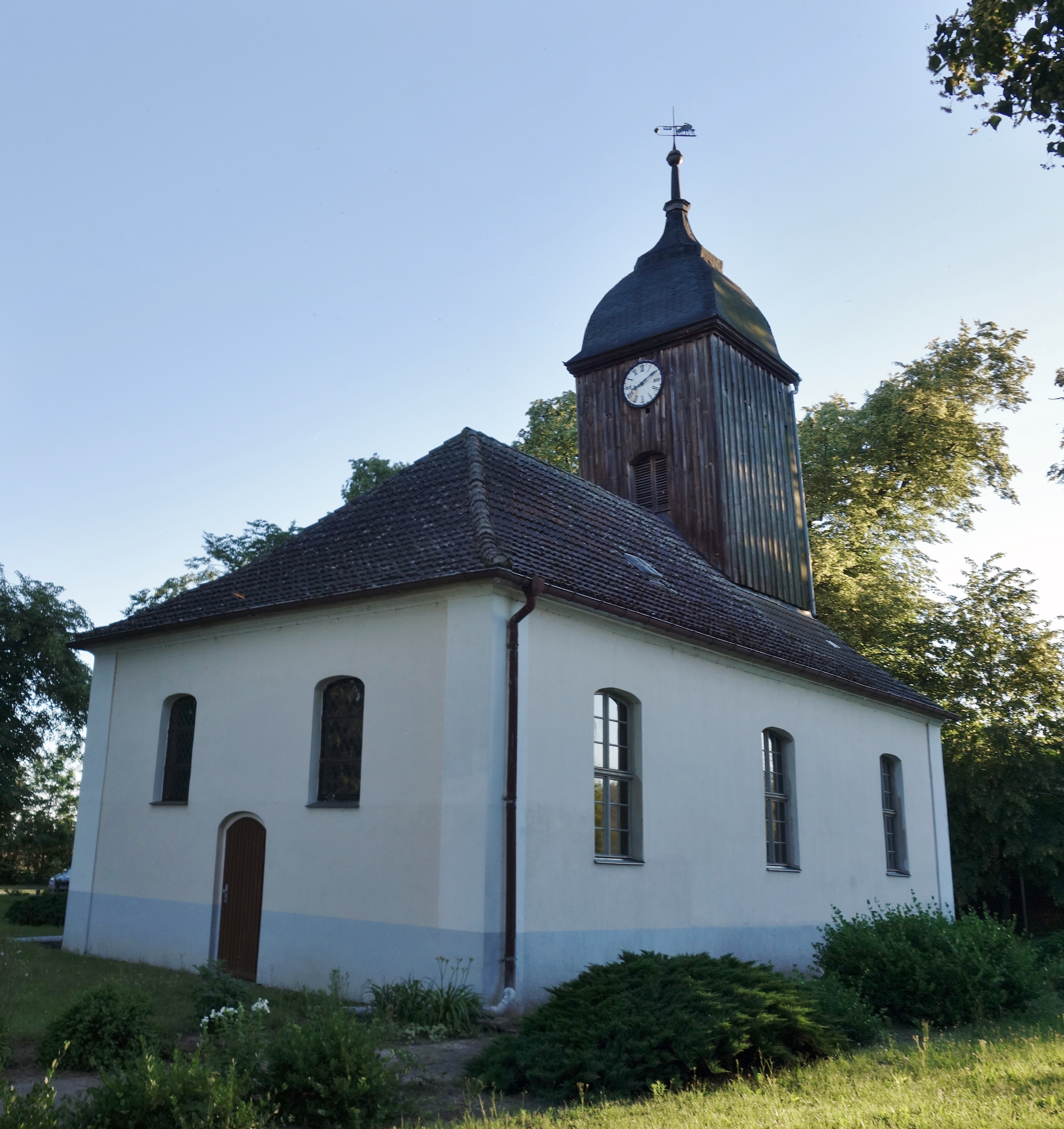 North-eastern view of church in Niebede, Nauen municipality, Havelland district, Brandenburg state, Germany.